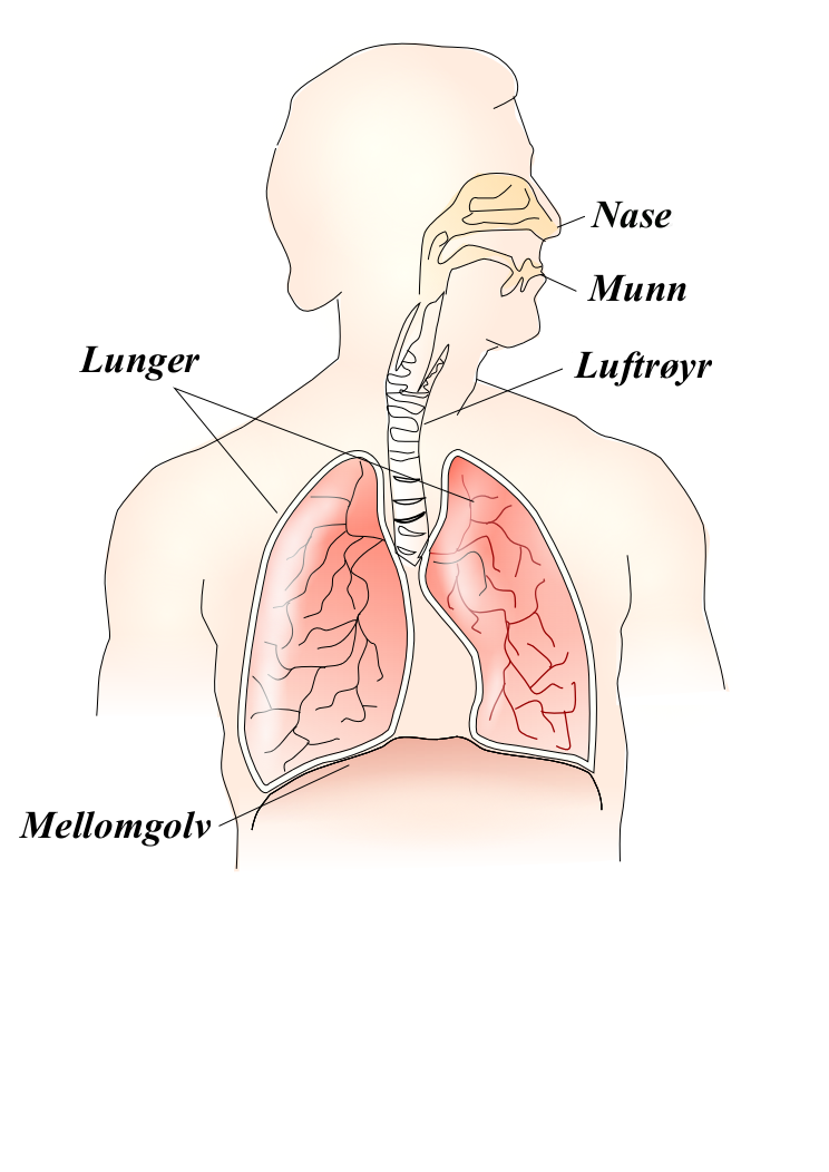 Drawing of the respiratory organs, based on an original drawn by Theresa Knott. Legends changed to norwegian (nynorsk) by myself, Kjetil Lenes.